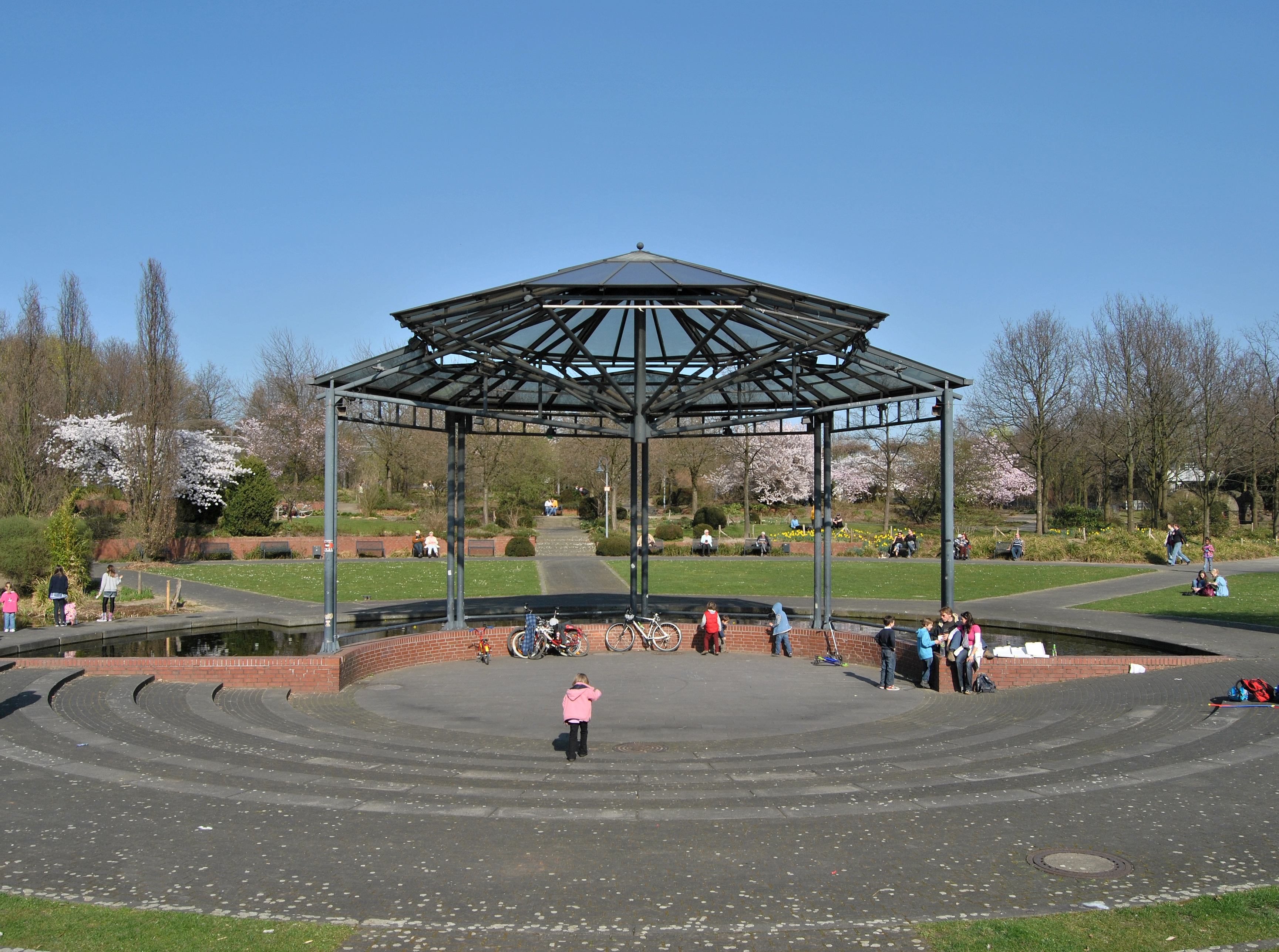 Roundhouse in Mülheim (North Rhine-Westphalia, Germany): View into MüGa parkThis photograph was taken with a Nikon D3000